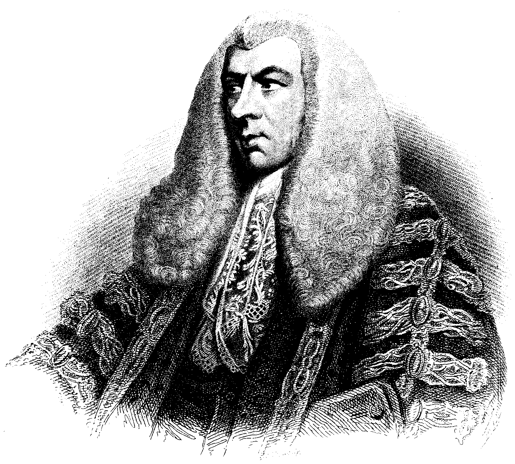 Henry Peter Brougham From Project Gutenberg EBook 13382: The Mirror Of Literature, Amusement, And Instruction, No. 496, by Various At